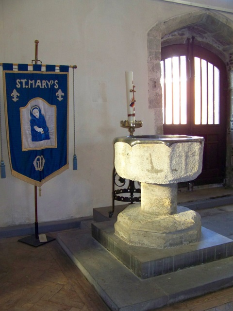 Font, Church of St Mary the Virgin, Fordingbridge The octagonal font has a Purbeck marble bowl much damaged by exposure to the weather, with two trefoiled panels on each face. The stem is circular and the base octagonal; it probably dates from the early part of the 14th century.